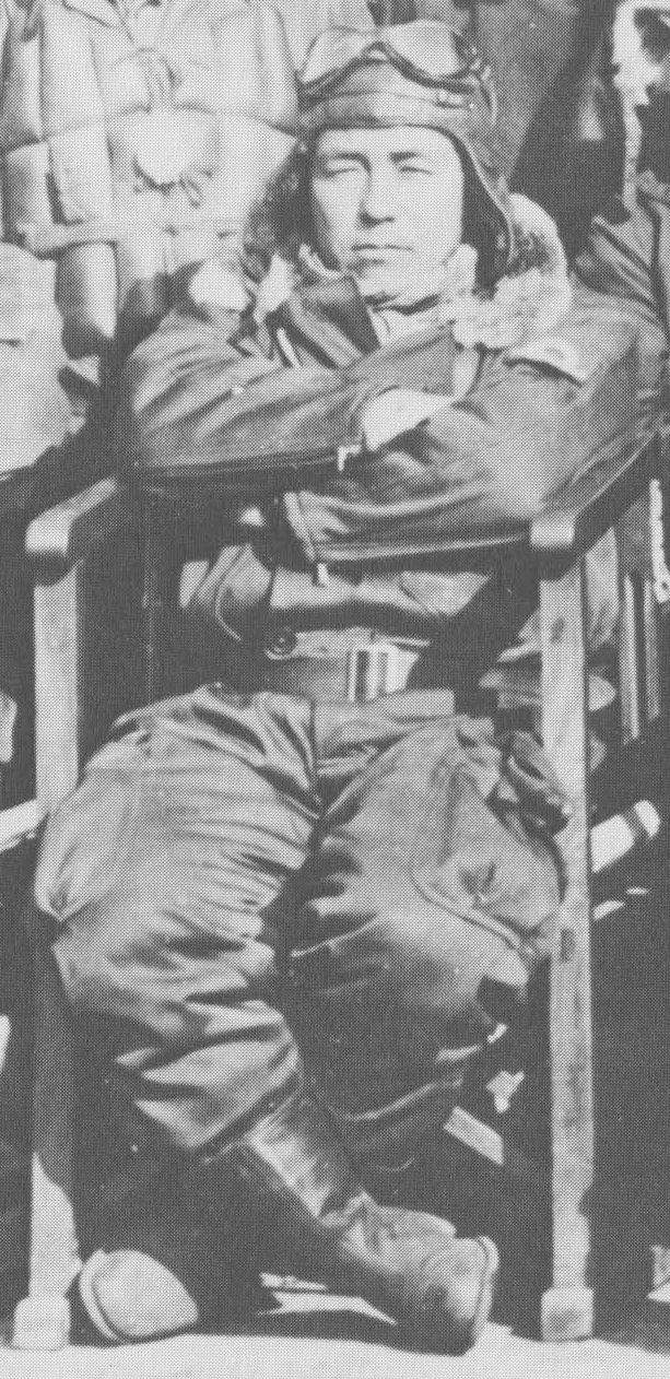 1=Imperial Japanese Navy officer and fighter ace Sadaaki Akamatsu. He was officially credited with 27 victories in the Sino-Japan and Pacific Wars.